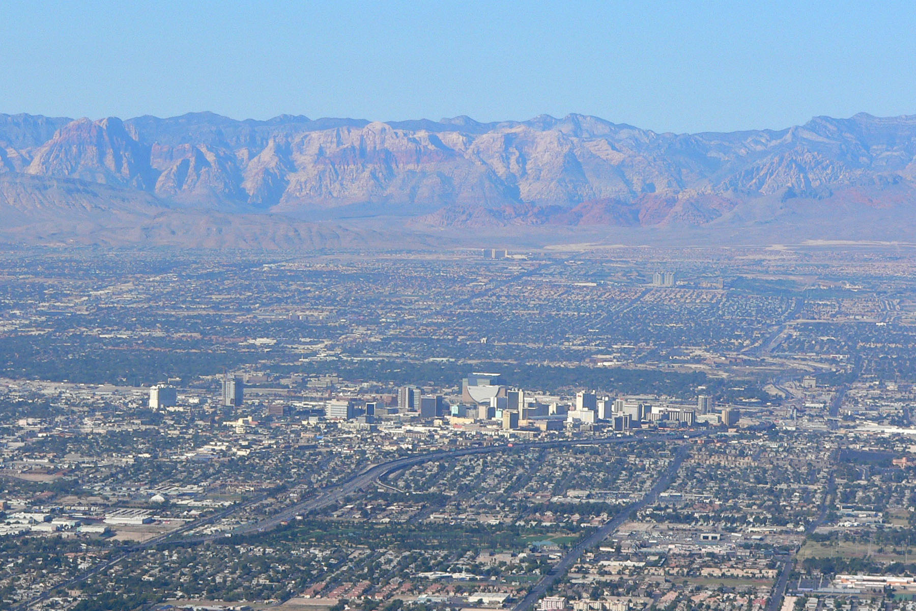 Downtown Las Vegas, Nevada and Red Rock Canyon behind, seen from Frenchman Mountain